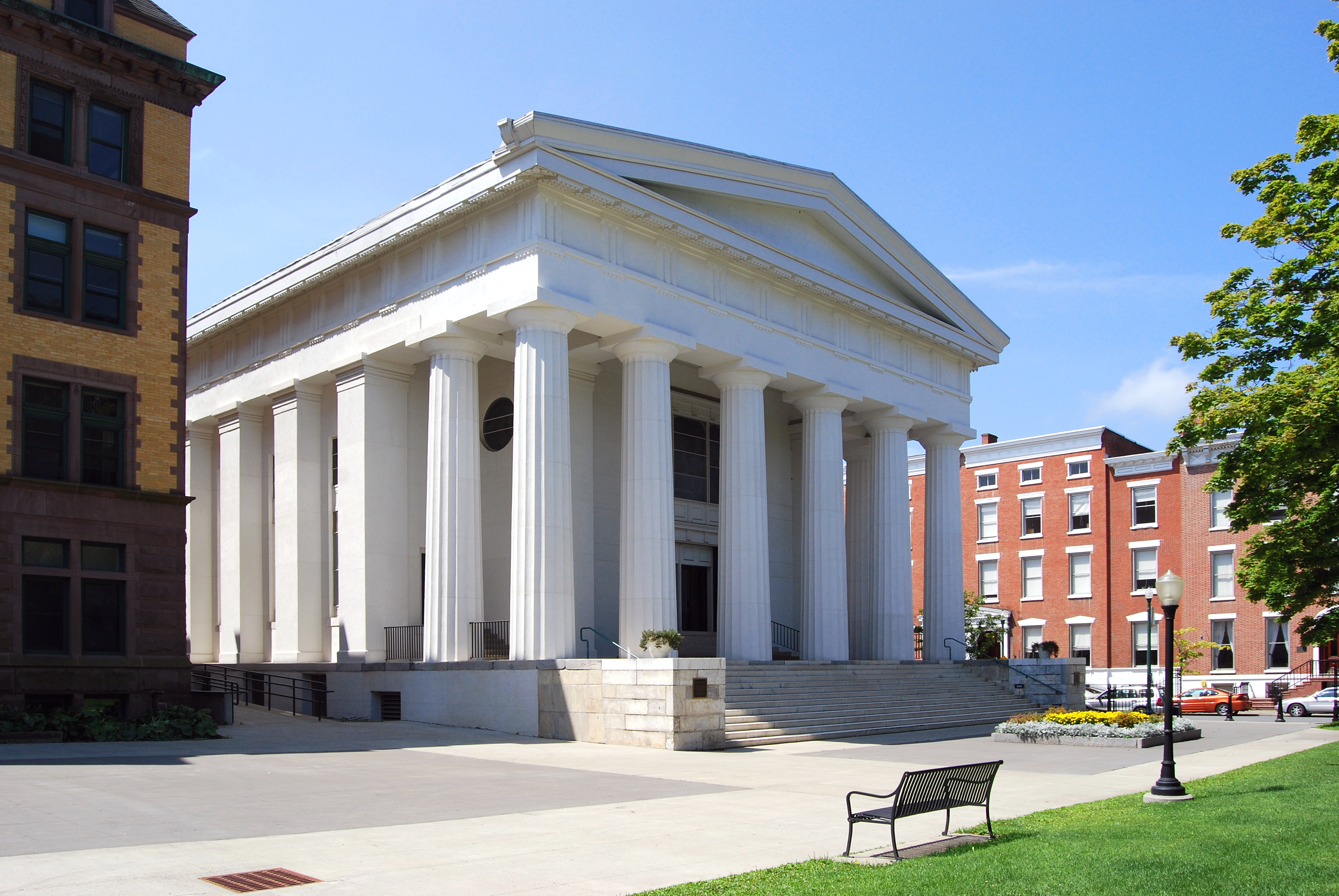 Bush Memorial Center on the campus of Russell Sage College in Troy, New York, United States